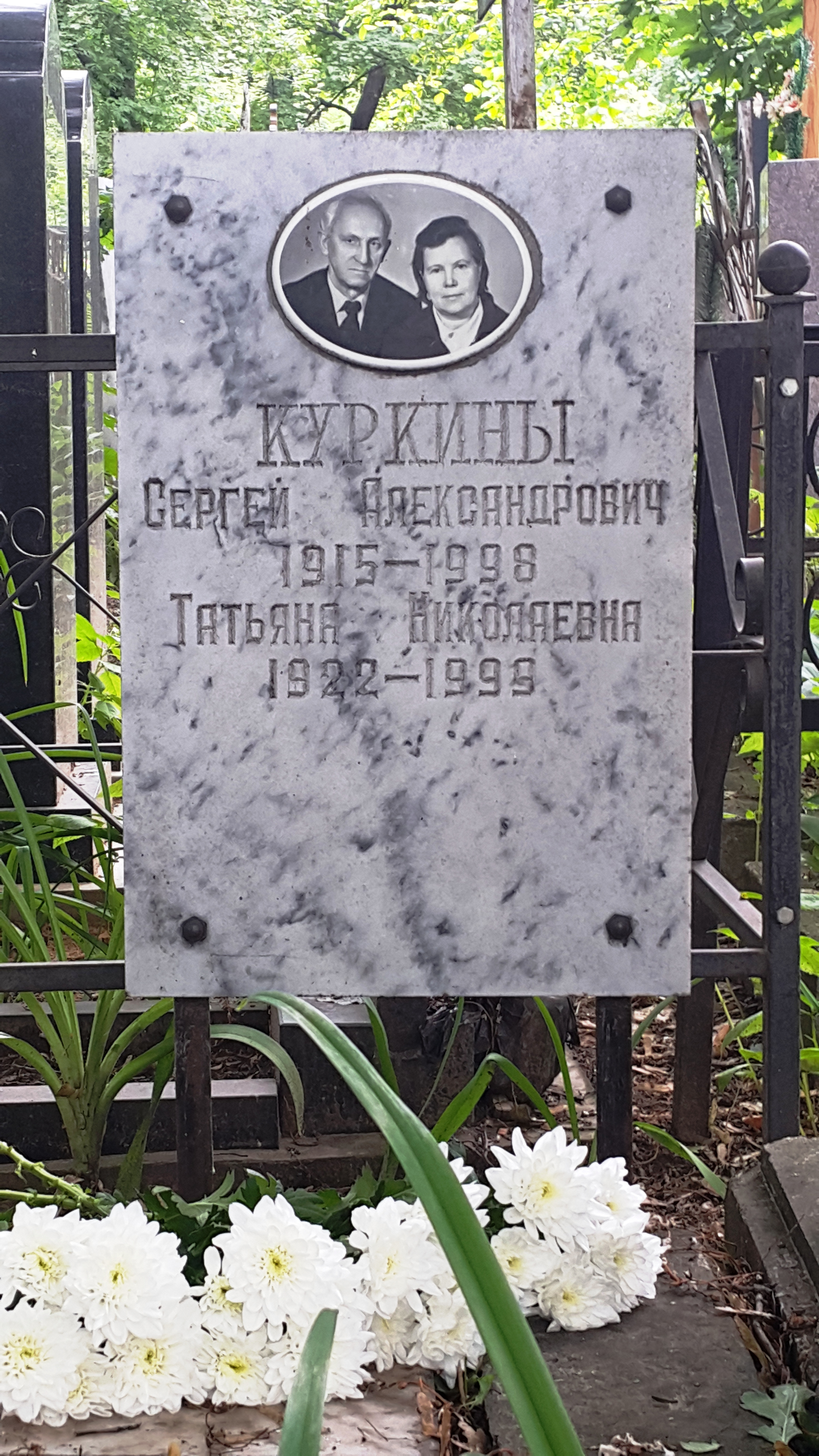 Kurkin S.A.